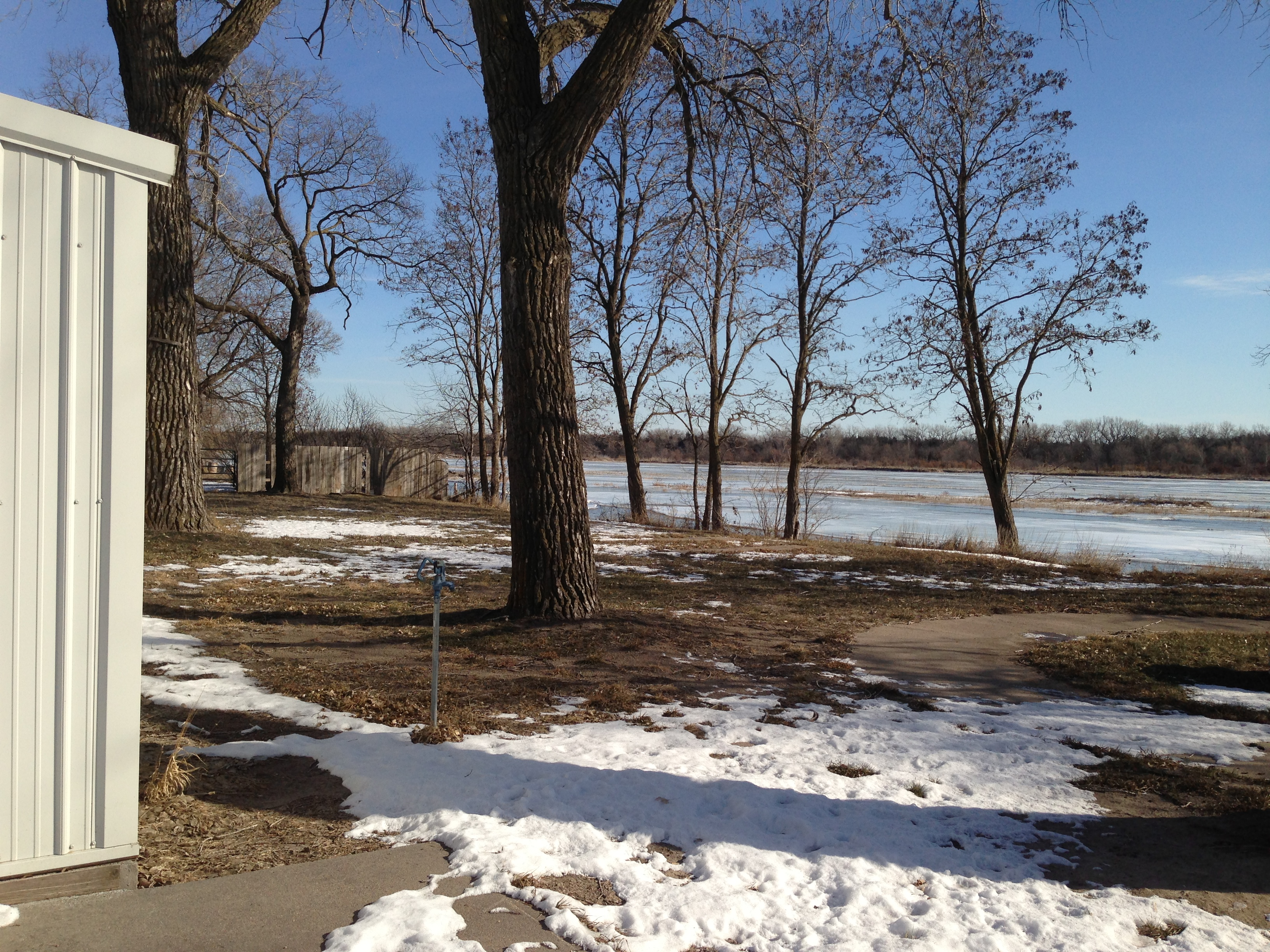 The Platte river in Merrick, County, Nebraska (near Central City) viewed from the south side of Riverside Park Dance Pavilion on January 1, 2013.